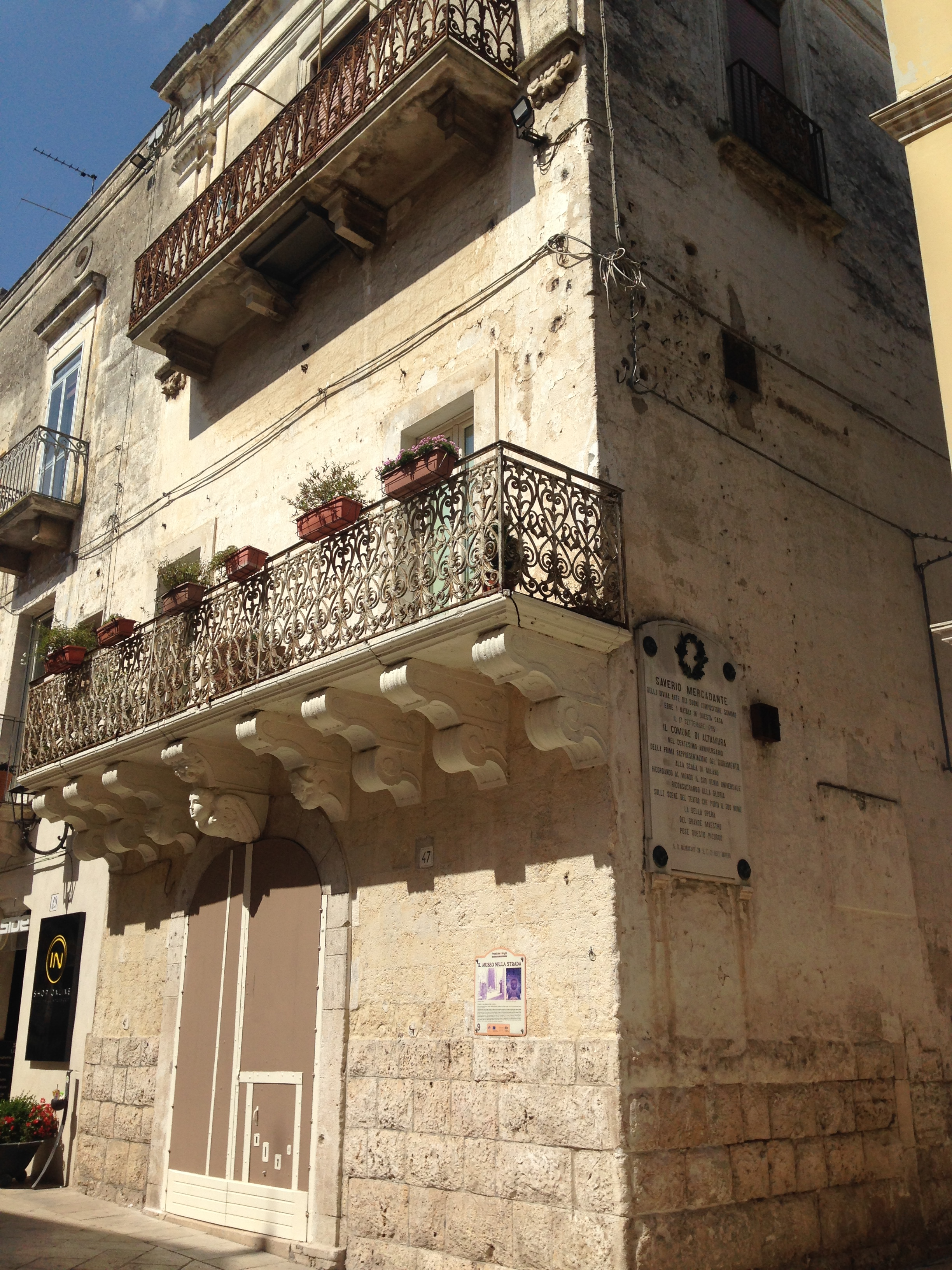 Italian opera composer Saverio Mercadante's (1795-1870) house and birthplace, located in Altamura. The plaque dates back to the Italy's fascist period.